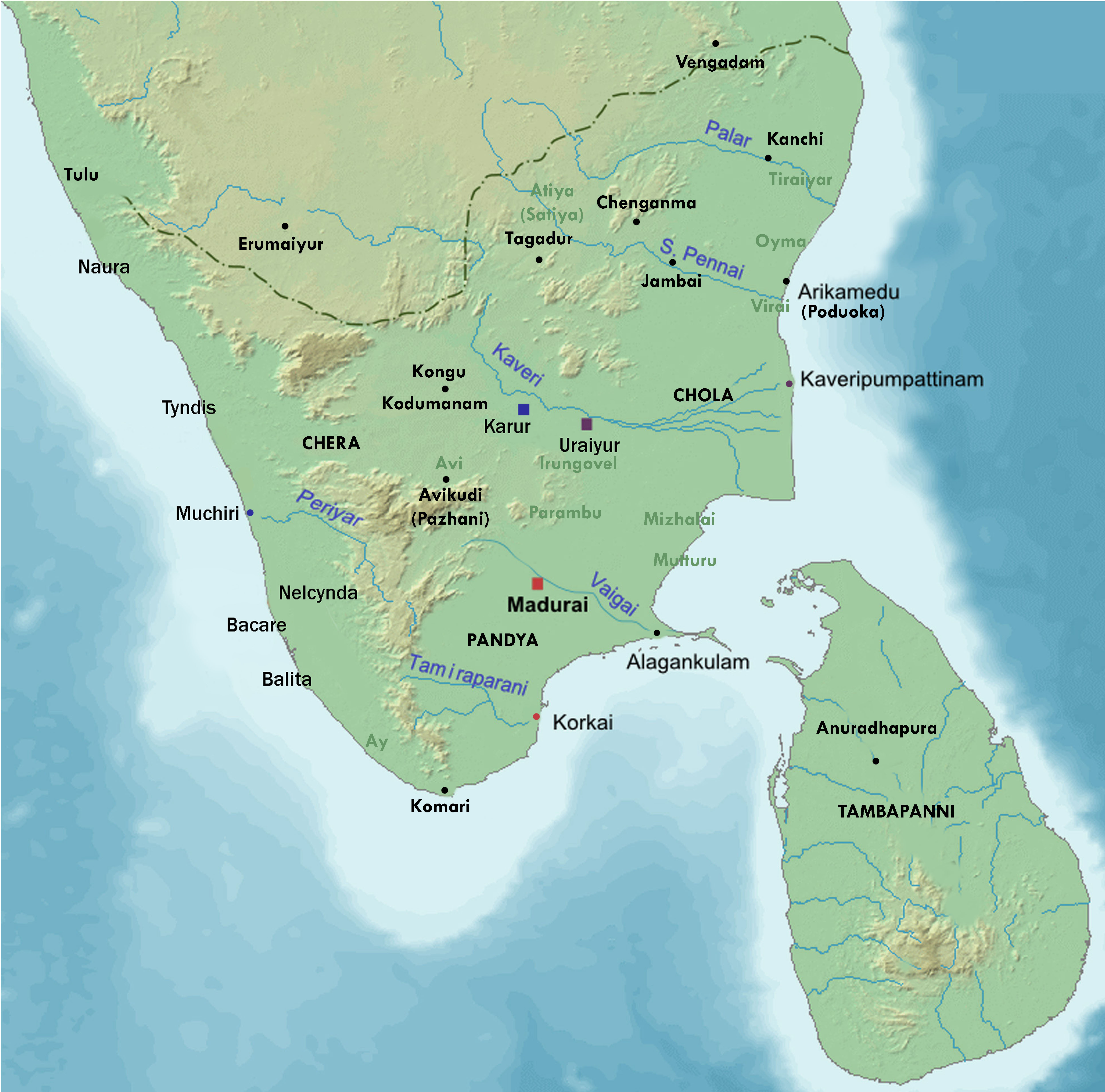 Map showing the important port cities of ancient Tamil country and its approximate northern boundary